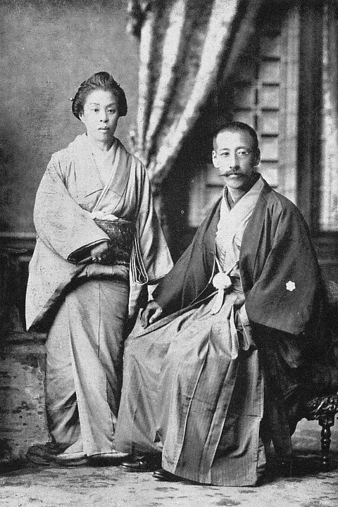 Tadanori Matsudaira and his wife